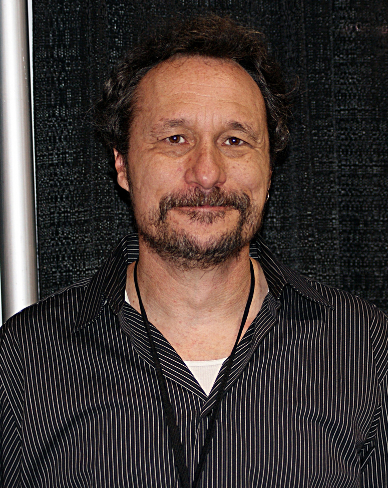 Dale Berry attending the Calgary Comic & Entertainment Expo in BMO Centre, Calgary, Alberta, Canada.